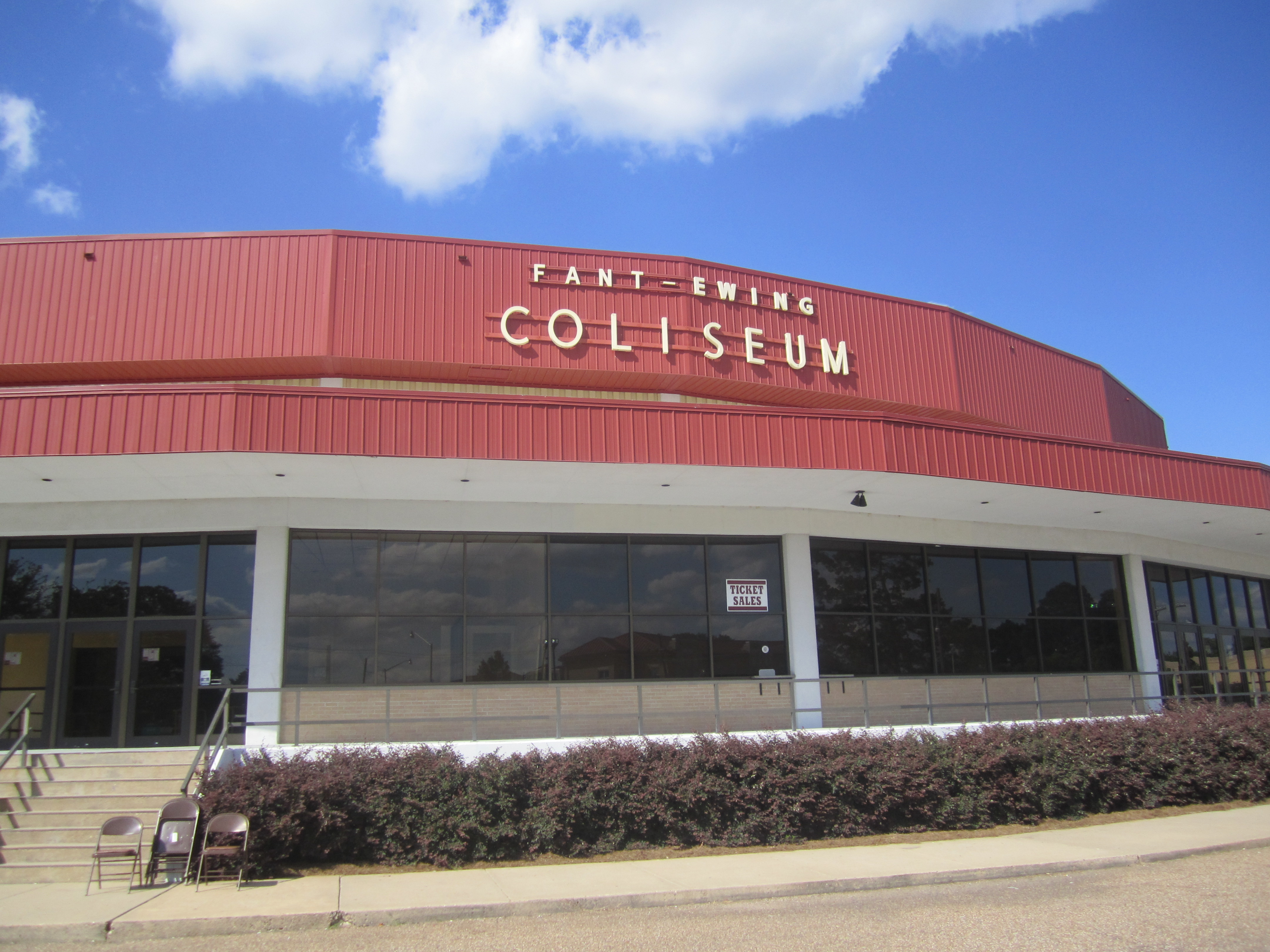 Fant-Ewing Coliseum (Monroe, Louisiana)